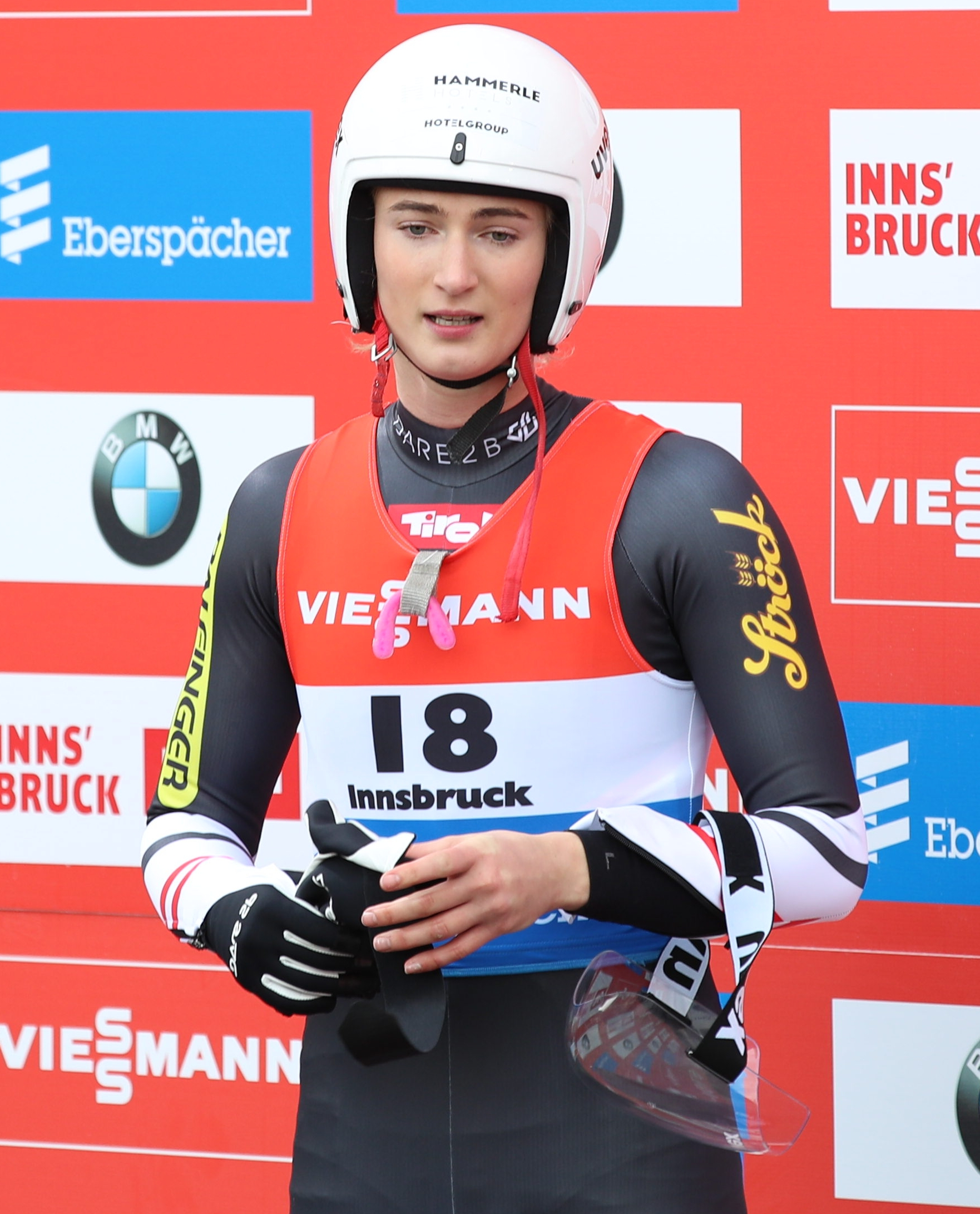 Women's World Cup race at the 2019/20 Luge World Cup in Innsbruck-Igls